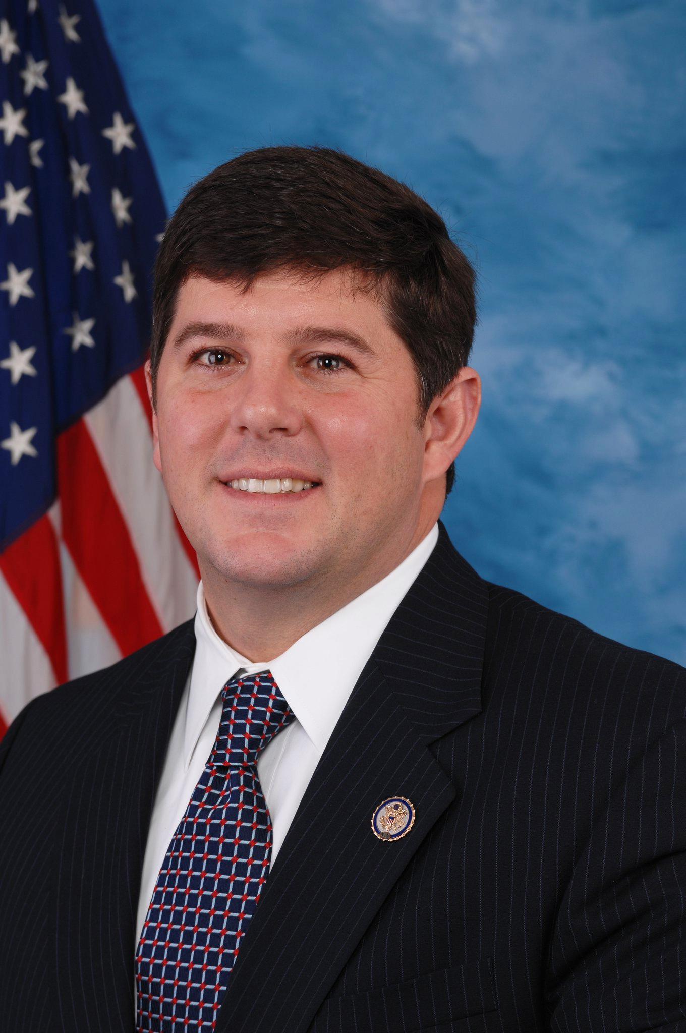 Official portrait of Steven Palazzo